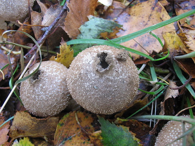 Calvatia excipuliformis, from the Puffball family. An occasional species of heaths, pastures and deciduous woodlands. This puffball is edible when young.